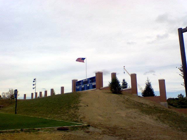 Butler Bowl